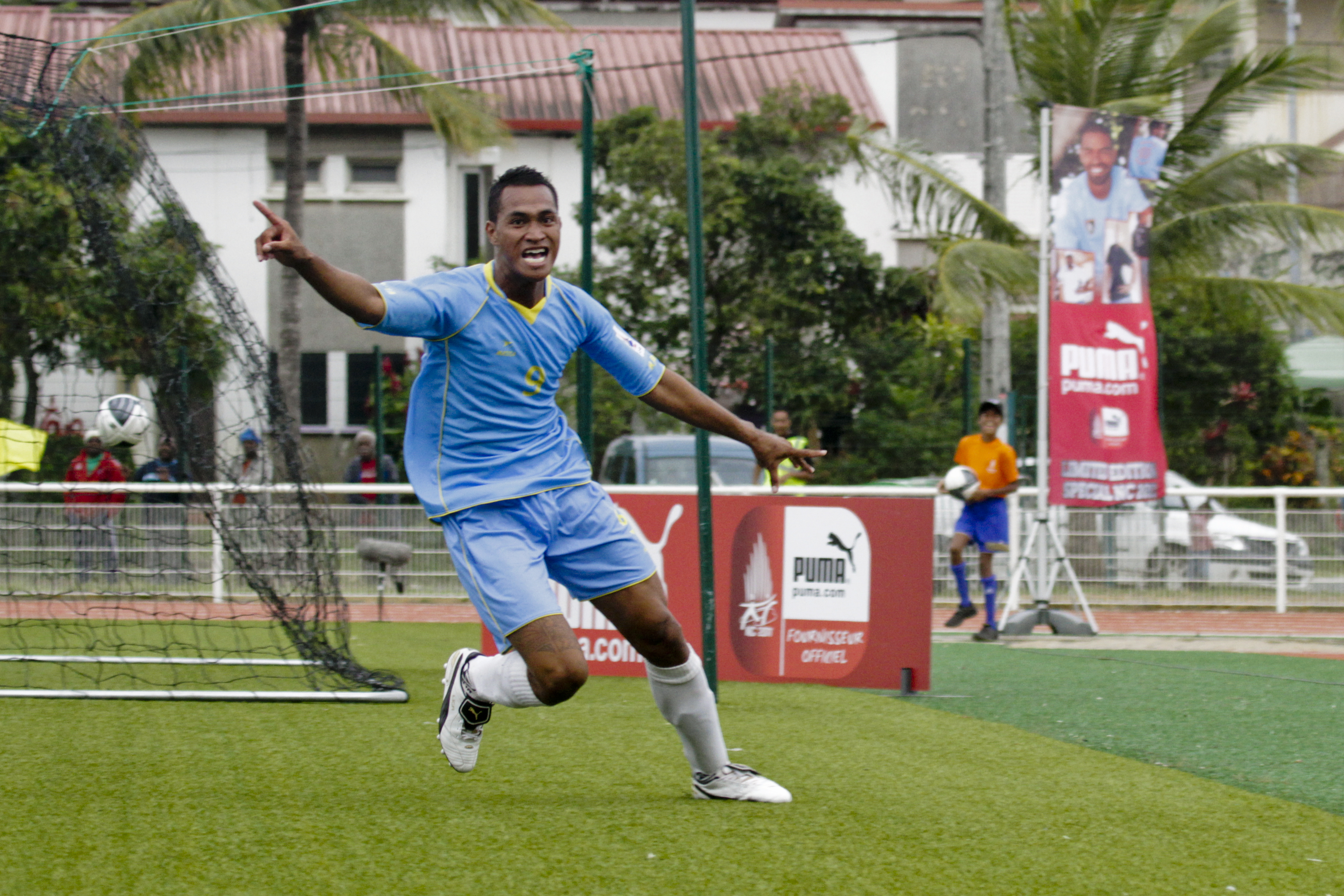 Lutelu_Tiute_02